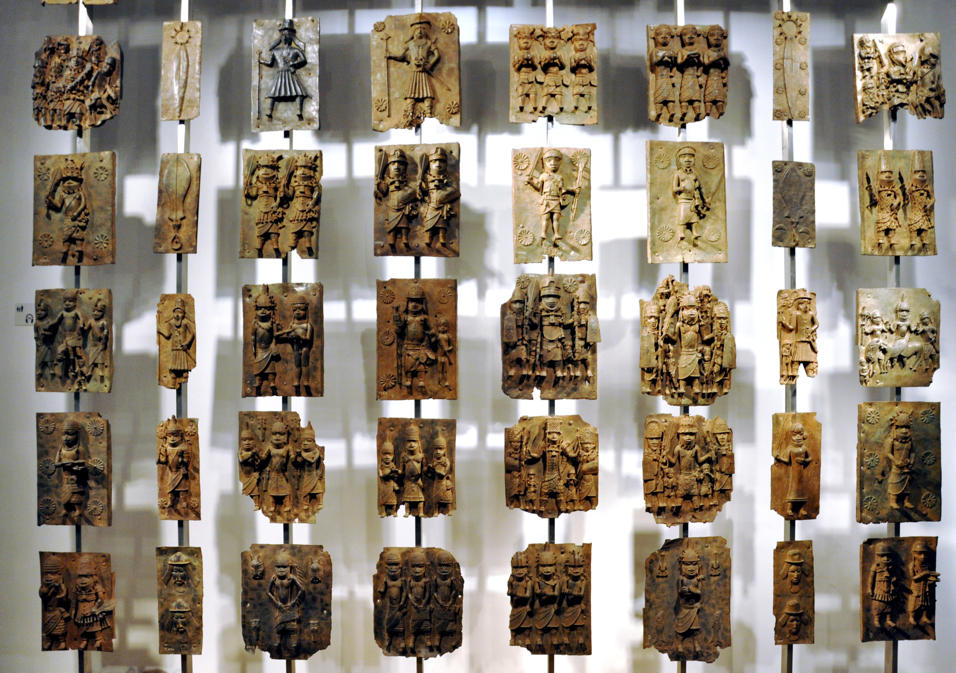 Cast brass plaques from Benin City. 16th - 17th. c. Room 25, British Museum